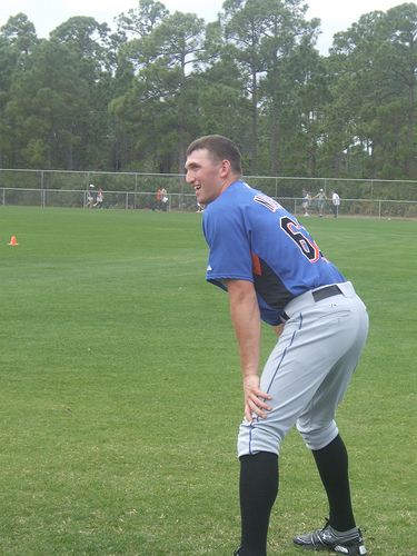 Jon Niese 12:58, 29 January 2009 . . Officerfrank . . 375×500 (128 KB)